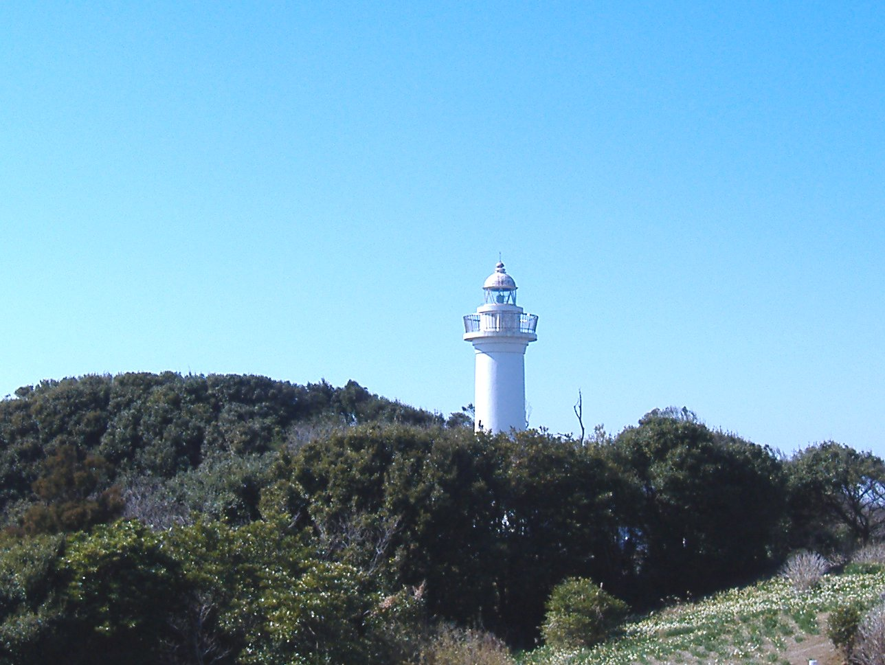 Cape Taitō Lighthouse